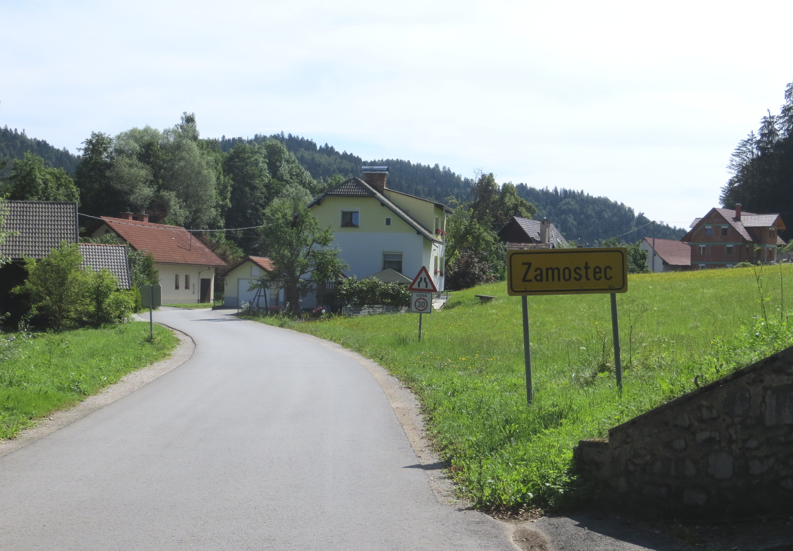 The hamlet of Podgora in Zamostec, Municipality of Sodražica, Slovenia